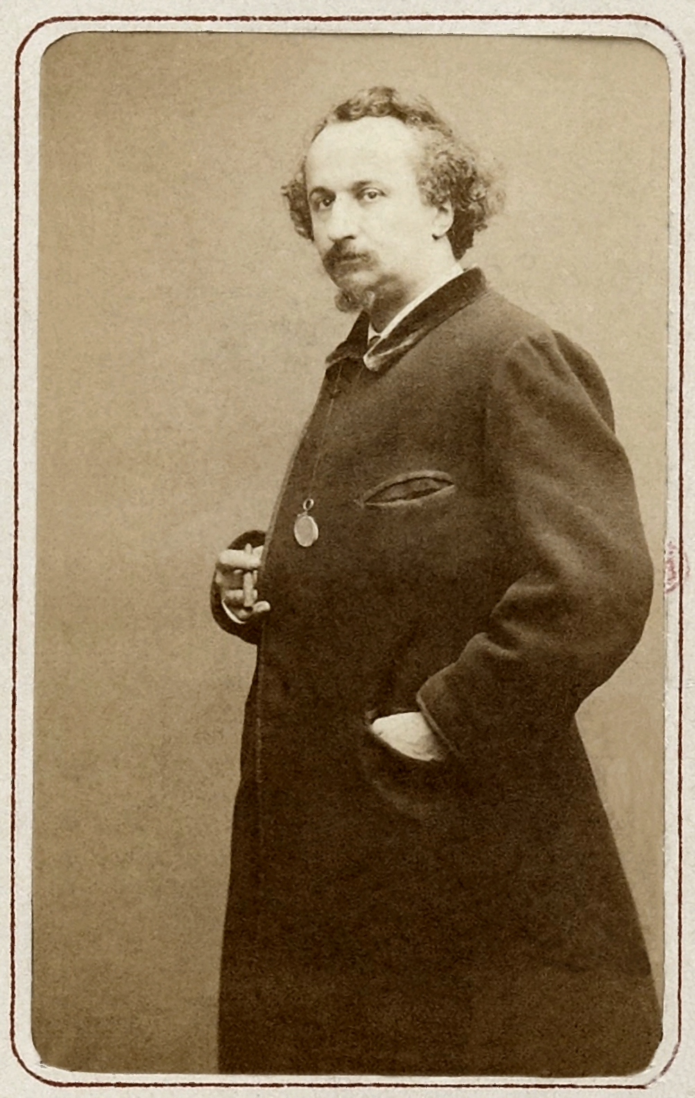 French caricaturist and photographer Étienne Carjat (1828-1906), by himself.